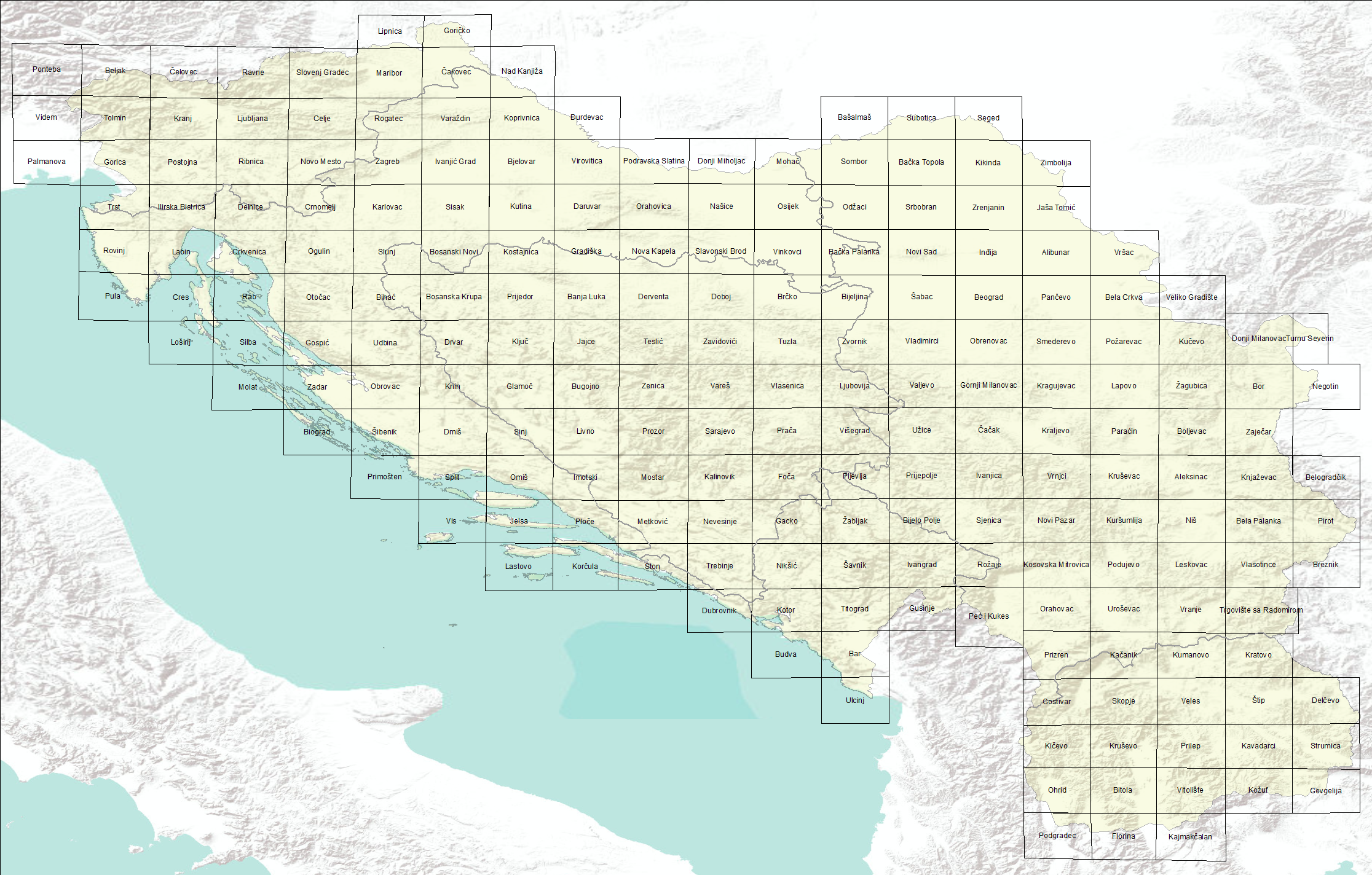 Sheets of the Basic Geologic Map of SFR Yugoslavia